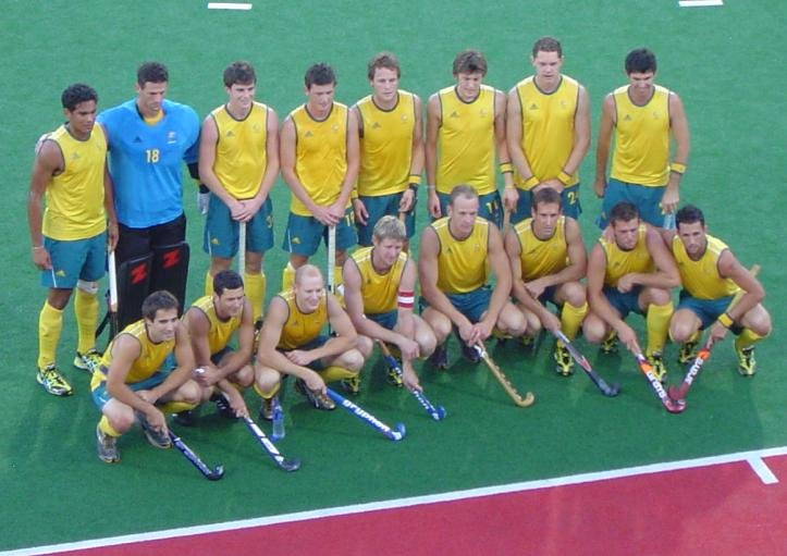 The Australian field hockey team at the 2008 Summer Olympics just before the match against Pakistan in the group states. Standing from the left: Abbott, Lambert, Kavanagh, Matheson, Guest, Ockenden, Brooks, Wells. Front row from the left: Brown, Dwyer, Hammond, George, Doerner, de Young, Schubert, Knowles